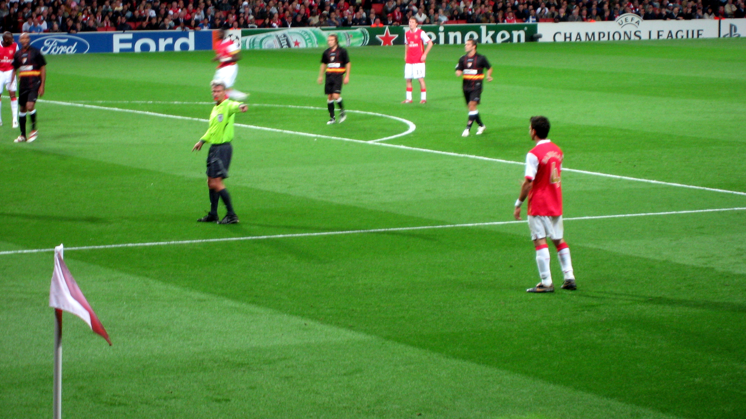 Champions League 2007-08 first match between Arsenal and Sevilla, in the Emirates Stadium. Nearest player is Cesc Fábregas.